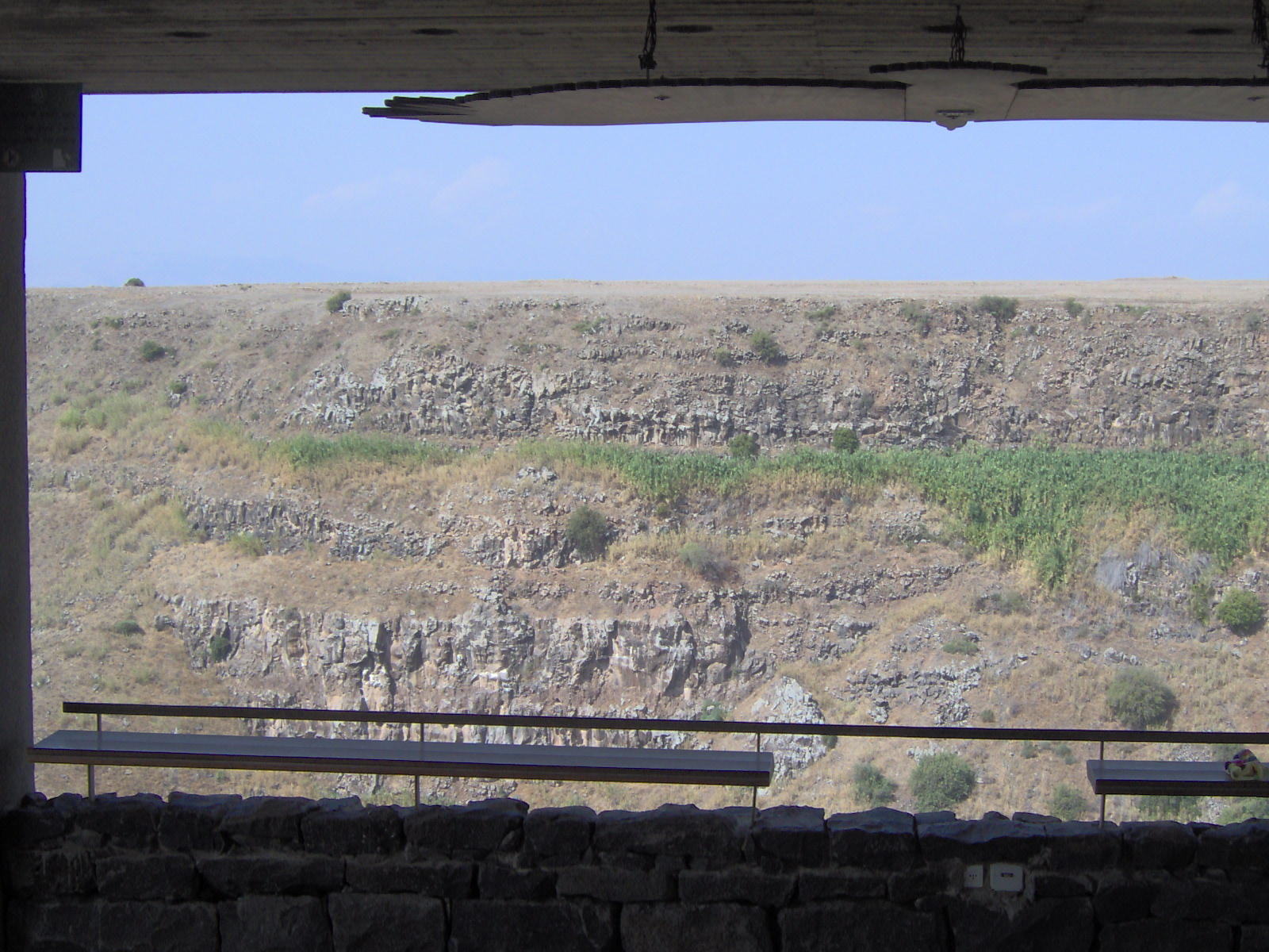 The Eagles look-out in Gamla, Golan Heights, Israel.